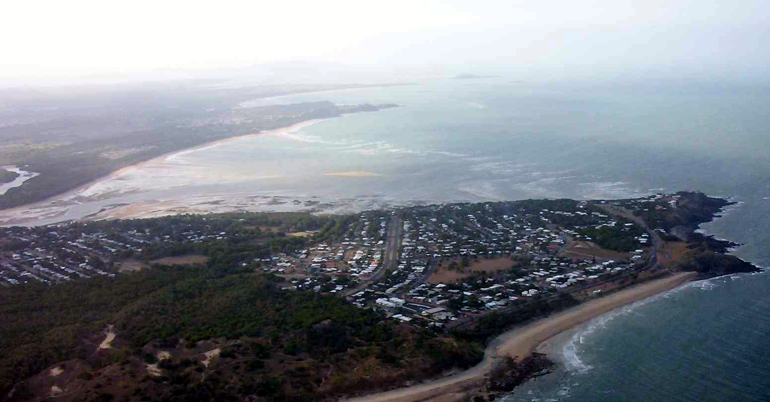 Photo I took of Mackay (Suburb of Slade Point), Queensland, Australia, from a helicopter, in December 2005.